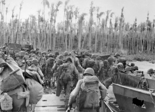 AWM Caption: New Britain. 15 December 1943. US troops disembark from landing barges in the early hours of the morning, in one of the most daring assaults yet undertaken in the Pacific, on the southern coast near Arawe. Japanese defenders were completely routed and the entire Arawe Peninsula and two nearby islands were seized and completely captured within three hours. Allied casualties were extremely light despite dive-bombing attacks by the enemy against our landing craft. The Allied assault punched a 200-mile bulge in the offensive arc under the command of General MacArthur.